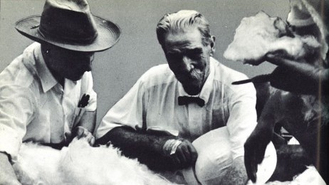 The ice block expedition of 1959 meet with Albert Schweitzer.